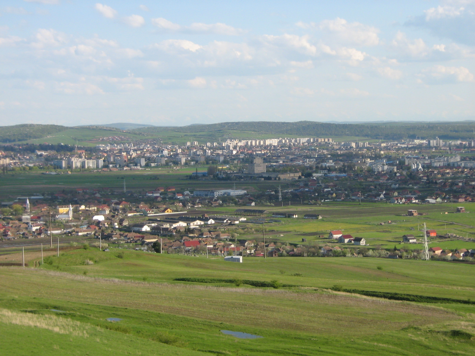 Cityscape of Târgu Mureş with the Făgăraş Mountains in the background